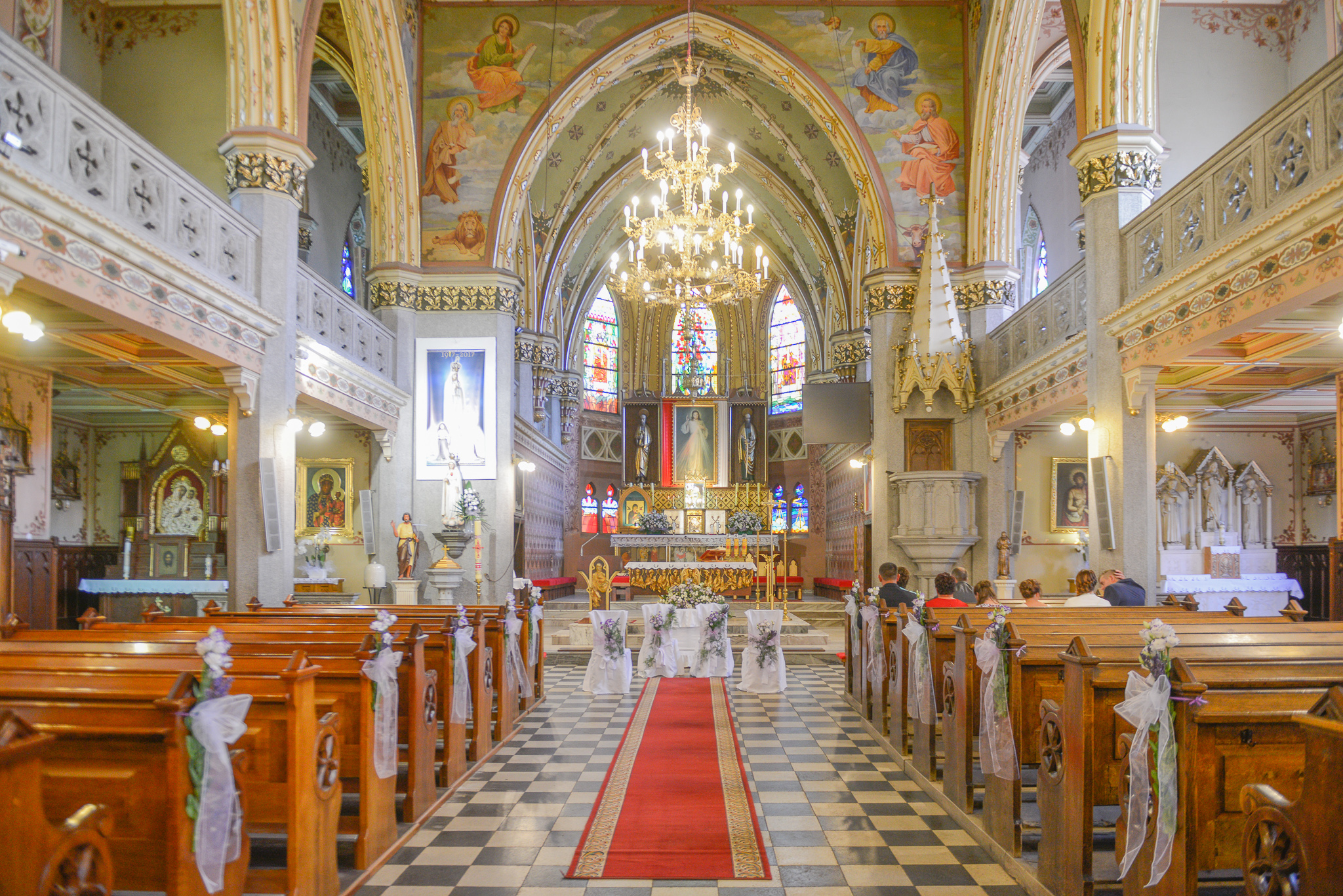 Parish of Sts. John the Baptist in Komorowice, Bielsko-Biała, Poland. Photo of interior of church in wedding decorations.